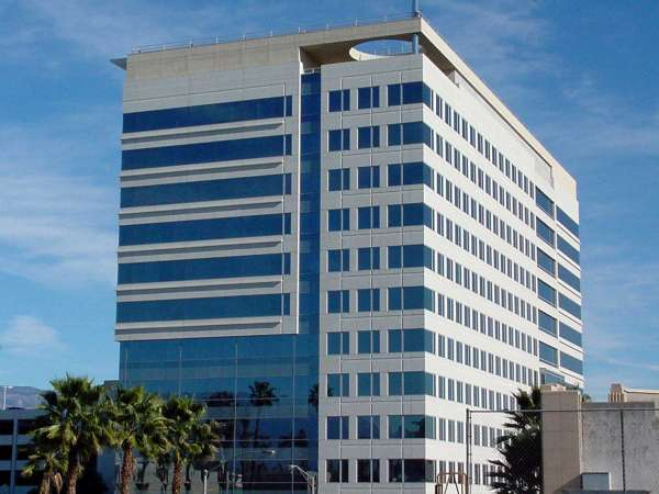 Major building of the Inland Empire located in Downtown San Bernardino